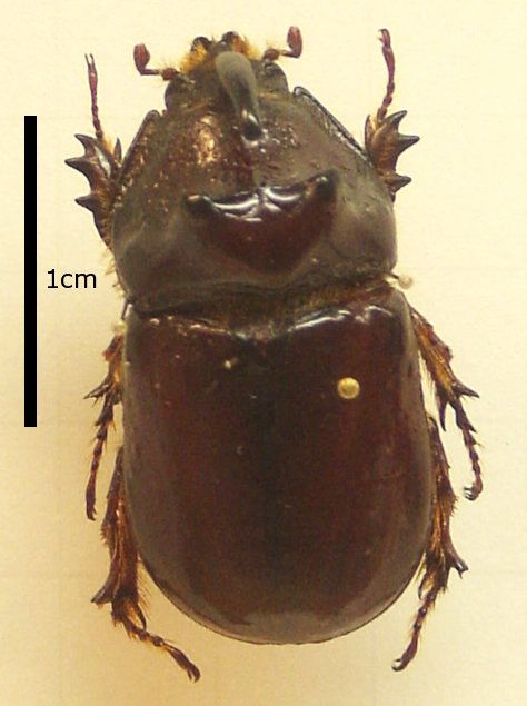 Oryctes nasicornis (Scarabaeidae), mounted specimen from Europe.